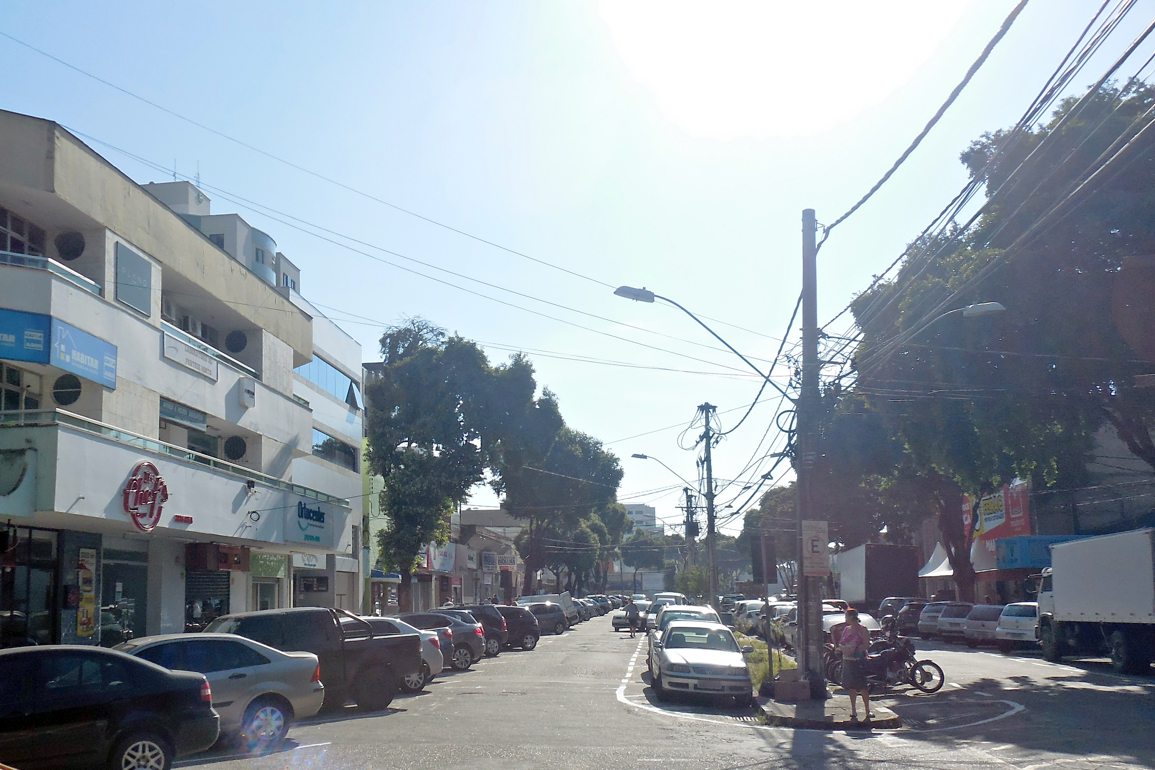 Commerce in the Horto neighborhood, in Ipatinga, Minas Gerais, Brazil.